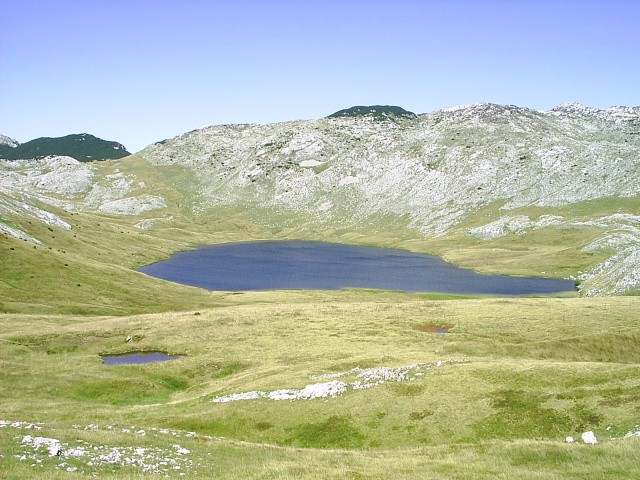 Štirinsko jezero in Zelengora mountains, BiH